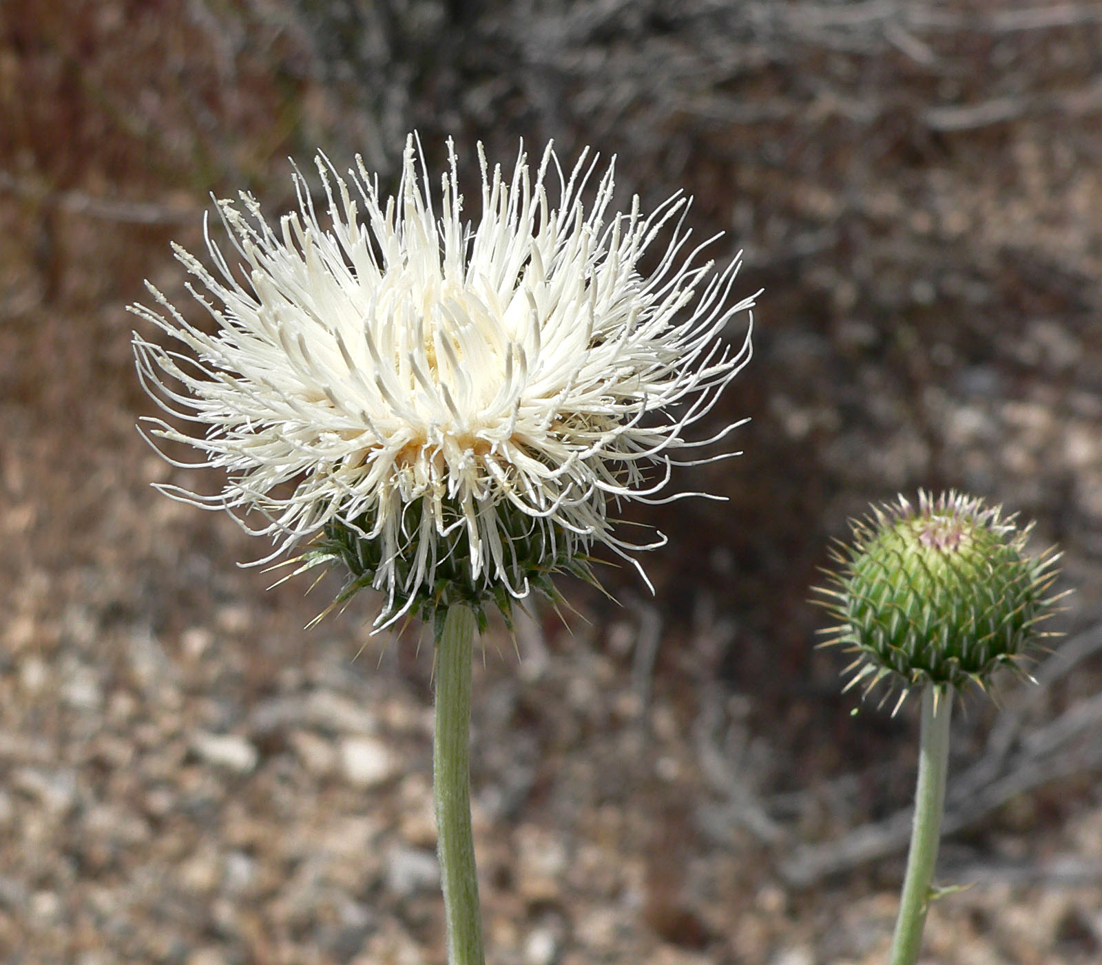 Photo of Cirsium neomexicanum in Red Rock Canyon, Nevada